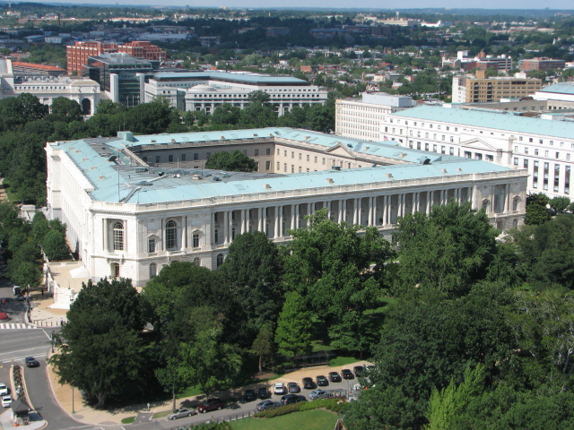 View of the Russel Senate Office Building from United States Capitol dome, taken on July 12th, 2007, by Rebel At.